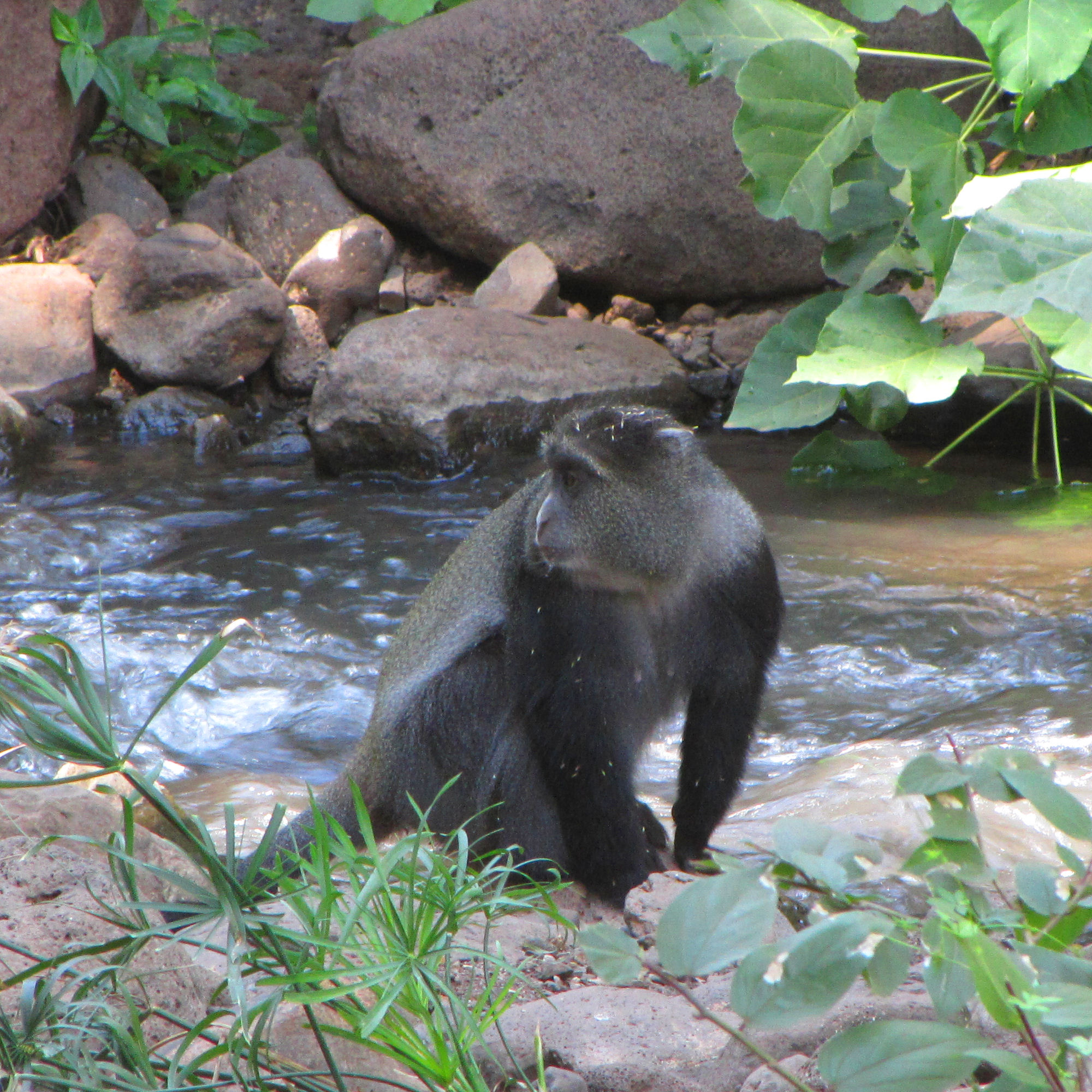 Blue Monkey (Cercopithecus mitis manyaraensis) by stream in Lake Manyara Park, Tanzania